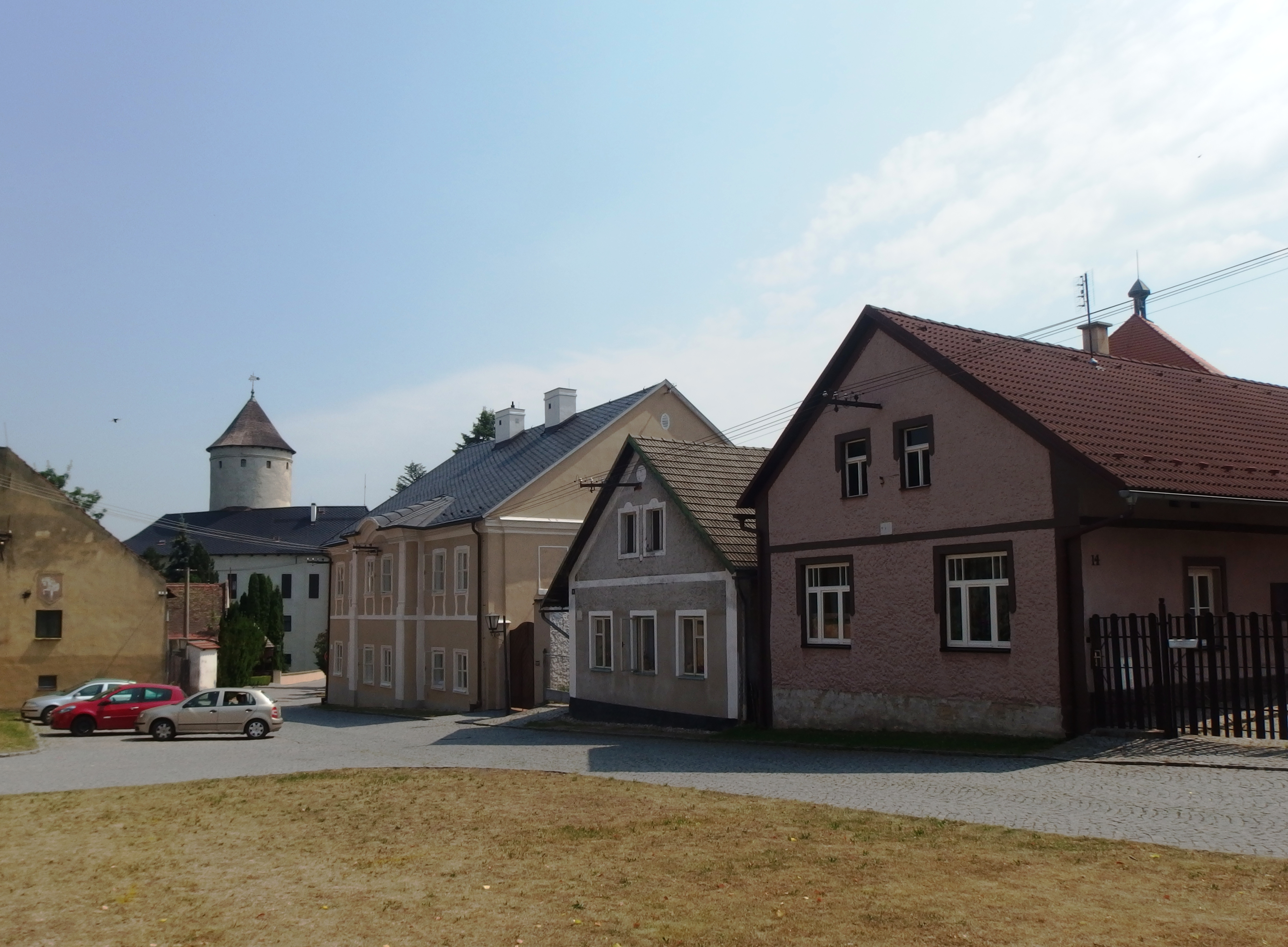 Předhradí, Chrudim District, Czech Republic.